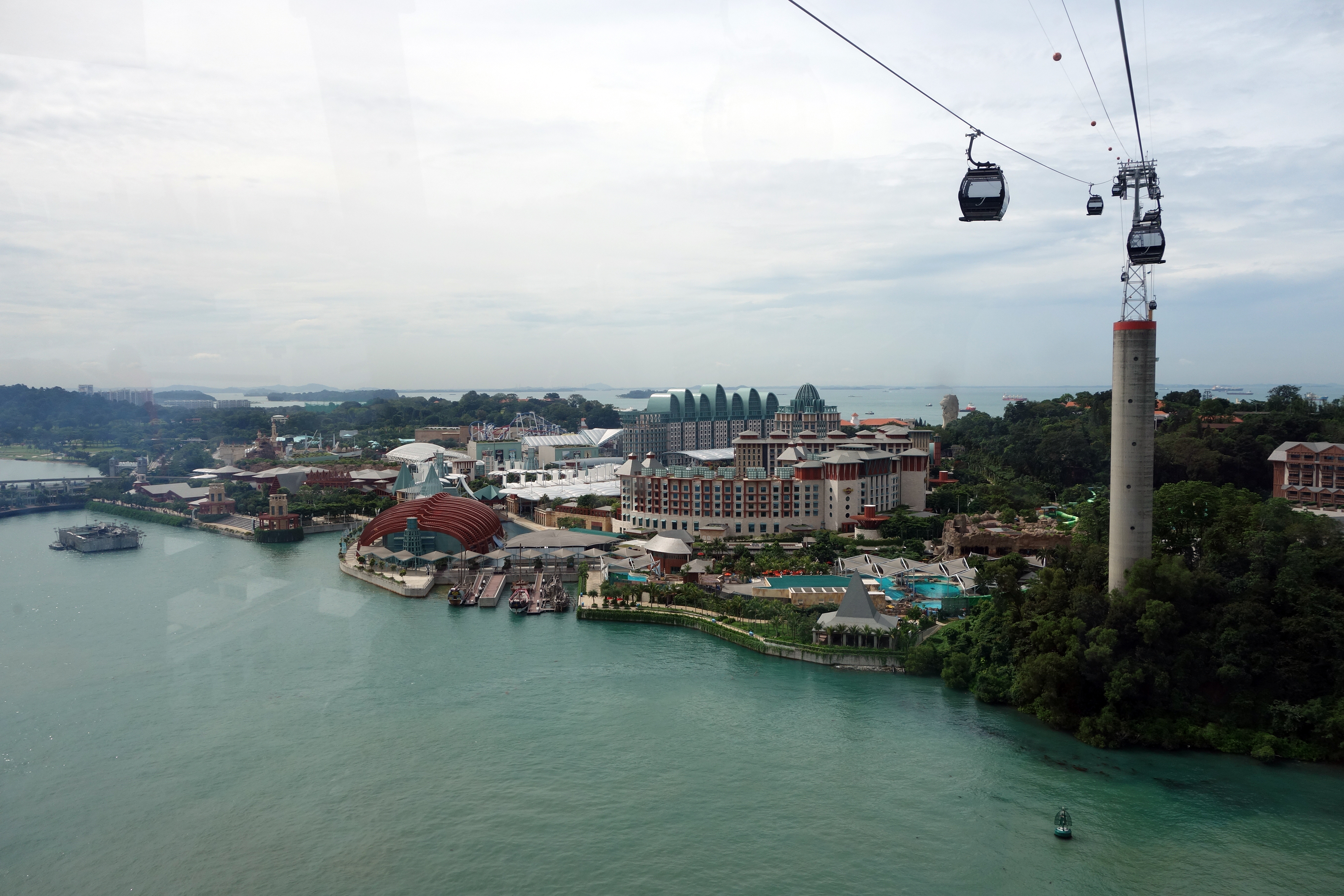 Sentosa Island in Singapore seen from the north